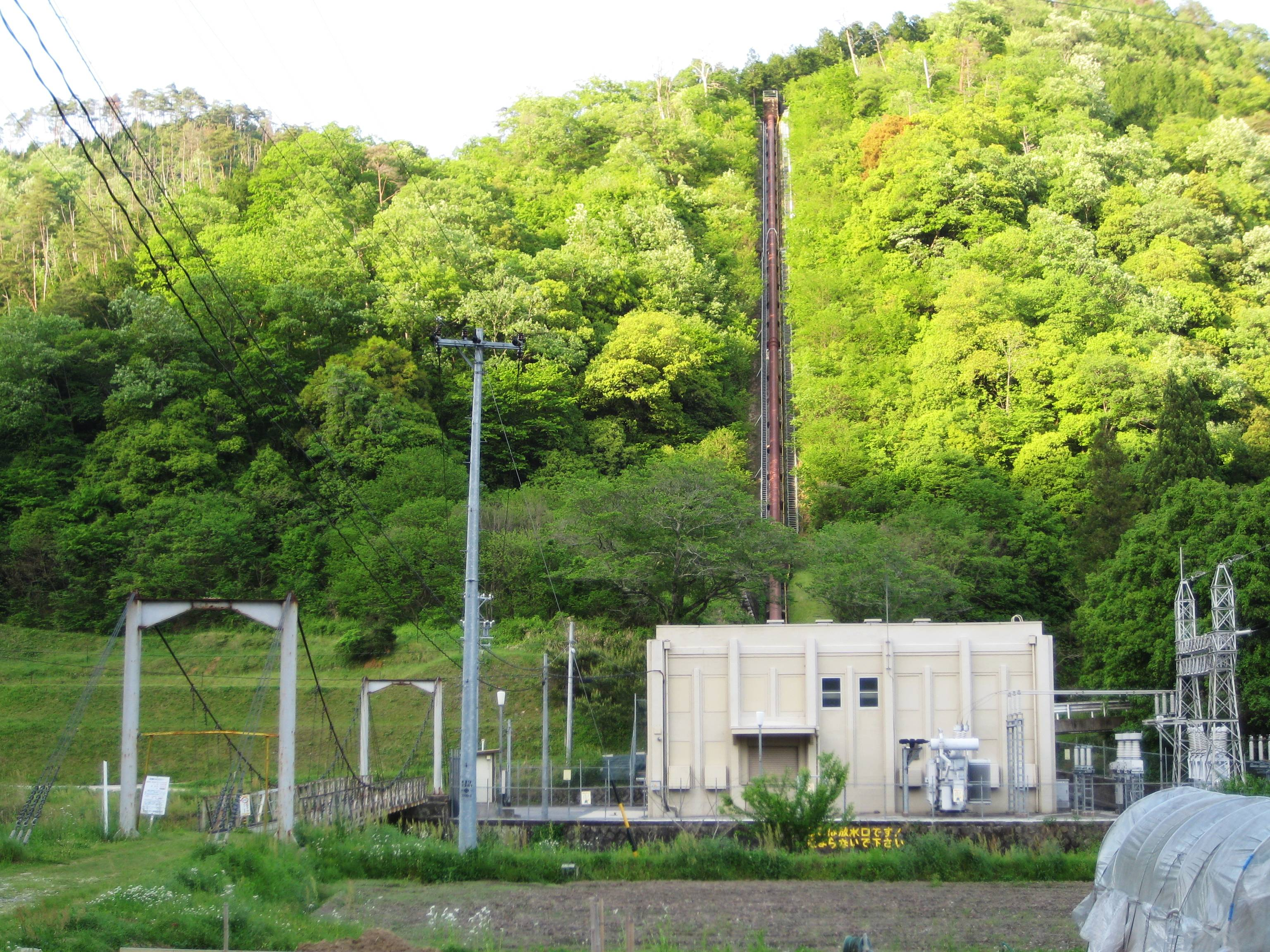 Akechi power station.